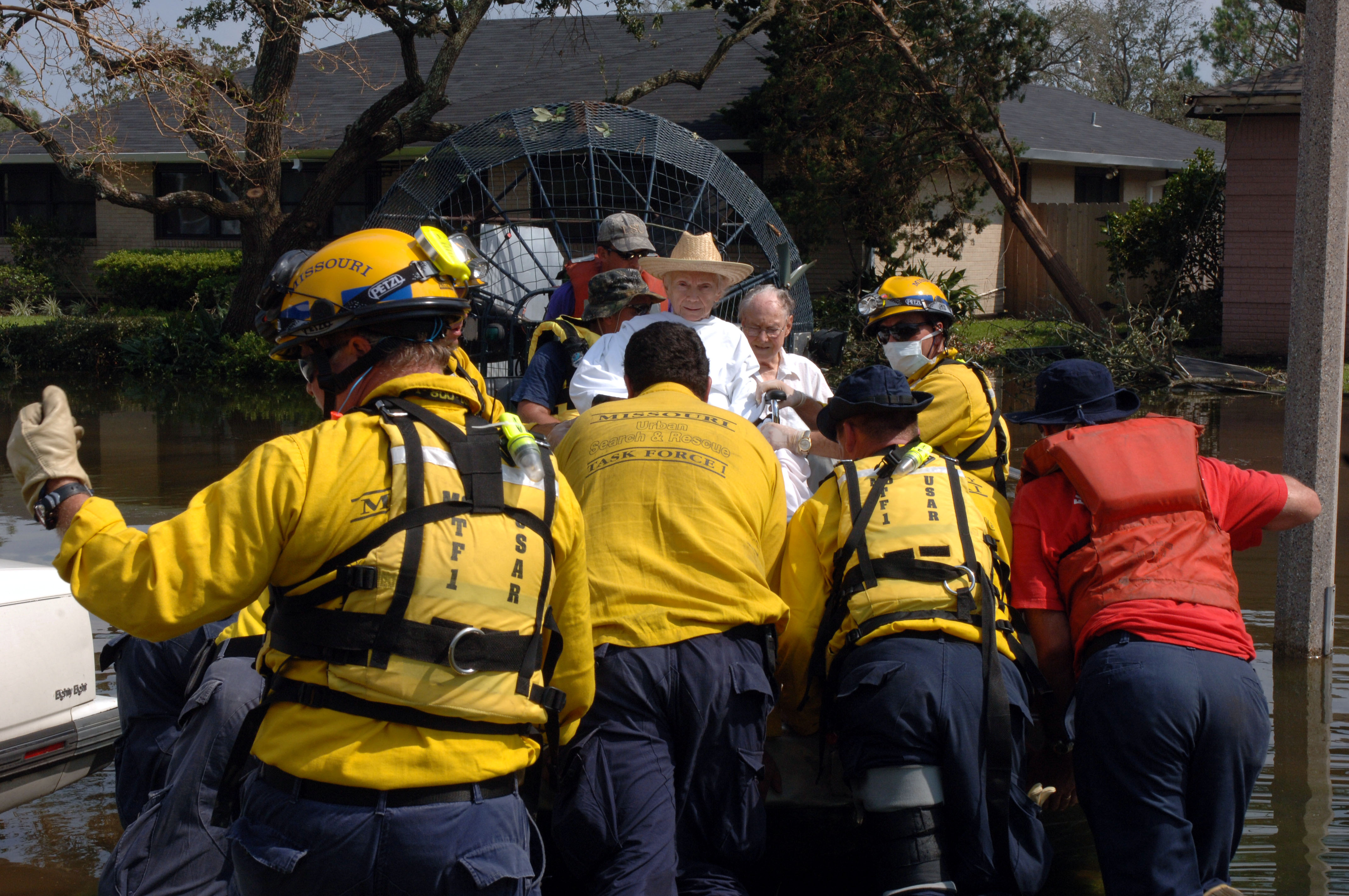 New Orleans, La., August 30, 2005 -- Missouri Urban Search and Rescue Task Force 1 rescuing a hurricane Katrina victim. New Orleans is being evacuated as a result of floods from hurricane Katrina. Thousand of people have been rescued from the flood waters by moving to their roofs and attics. Photo by Jocelyn Augustino/FEMA